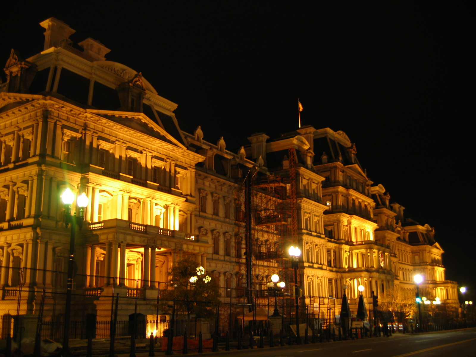 Old Executive Office Building, west facade along 17th Street, NW.